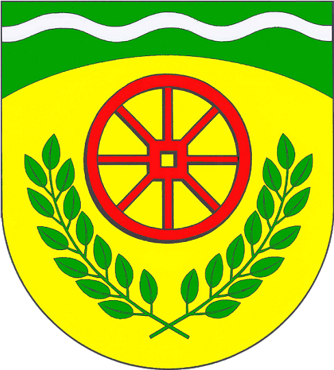 Coat of arms of the municipality Hennstedt in Schleswig-Holstein, Germany.